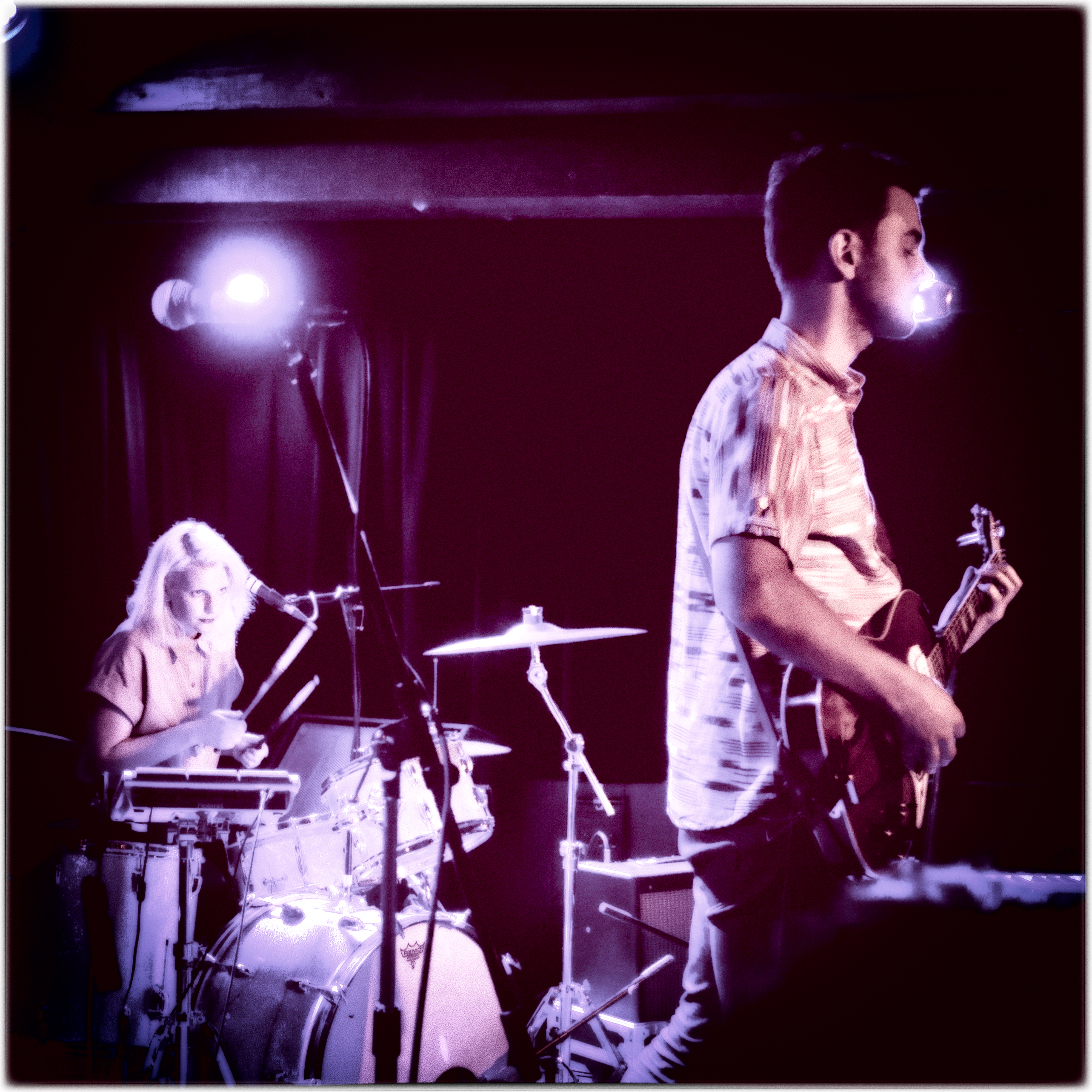 Big Scary performing at the Sunset Tavern in 2014